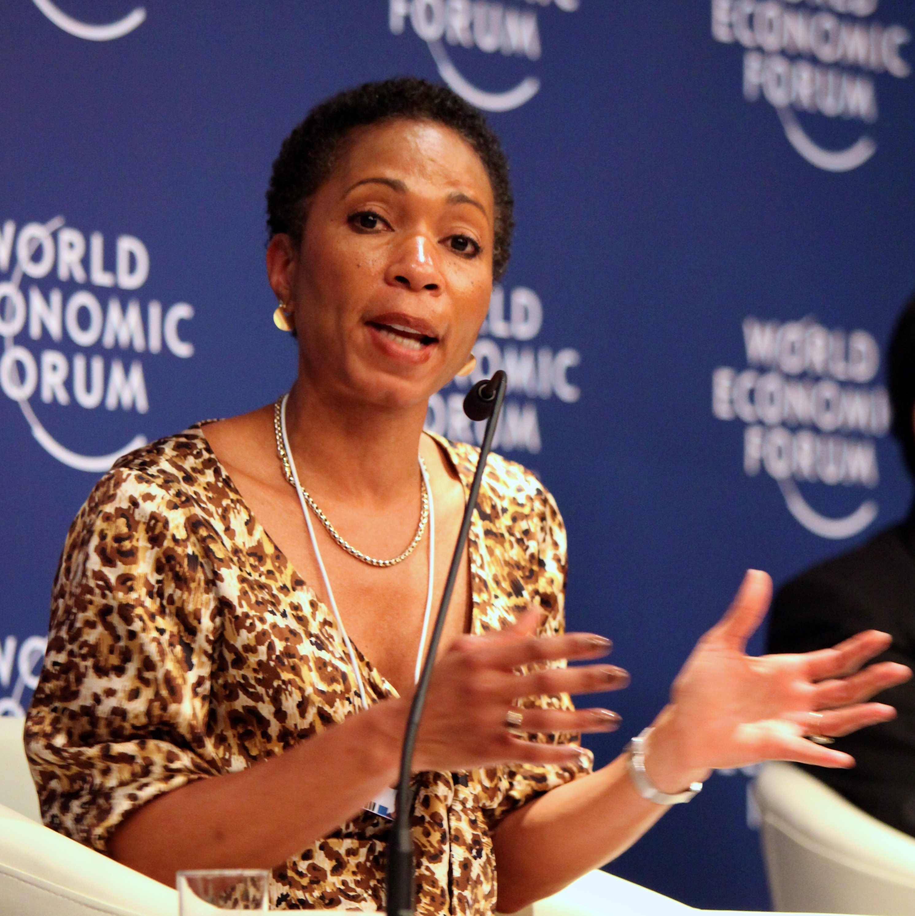 BANGKOK/THAILAND, 31MAY12 -Helene D. Gayle, President and Chief Executive Officer, CARE USA, USA; Co-Chair of the World Economic Forum on East Asia, is captured during the World Economic Forum on East Asia in Bangkok, Thailand, May 31, 2012. Copyright World Economic Forum ( Photo by Sikarin Thanachaiary